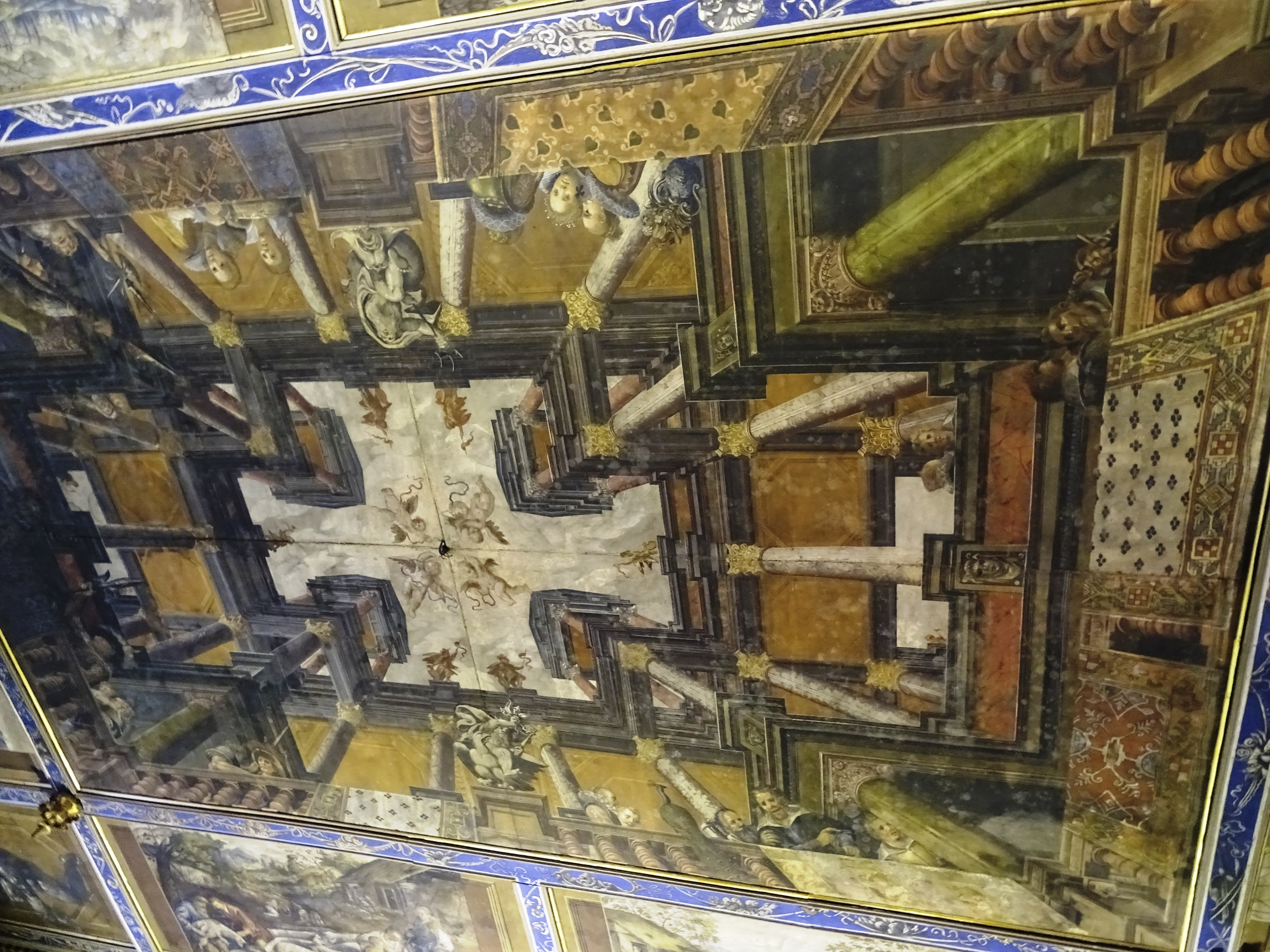 Celje ceiling, painting in the Old County in Celje